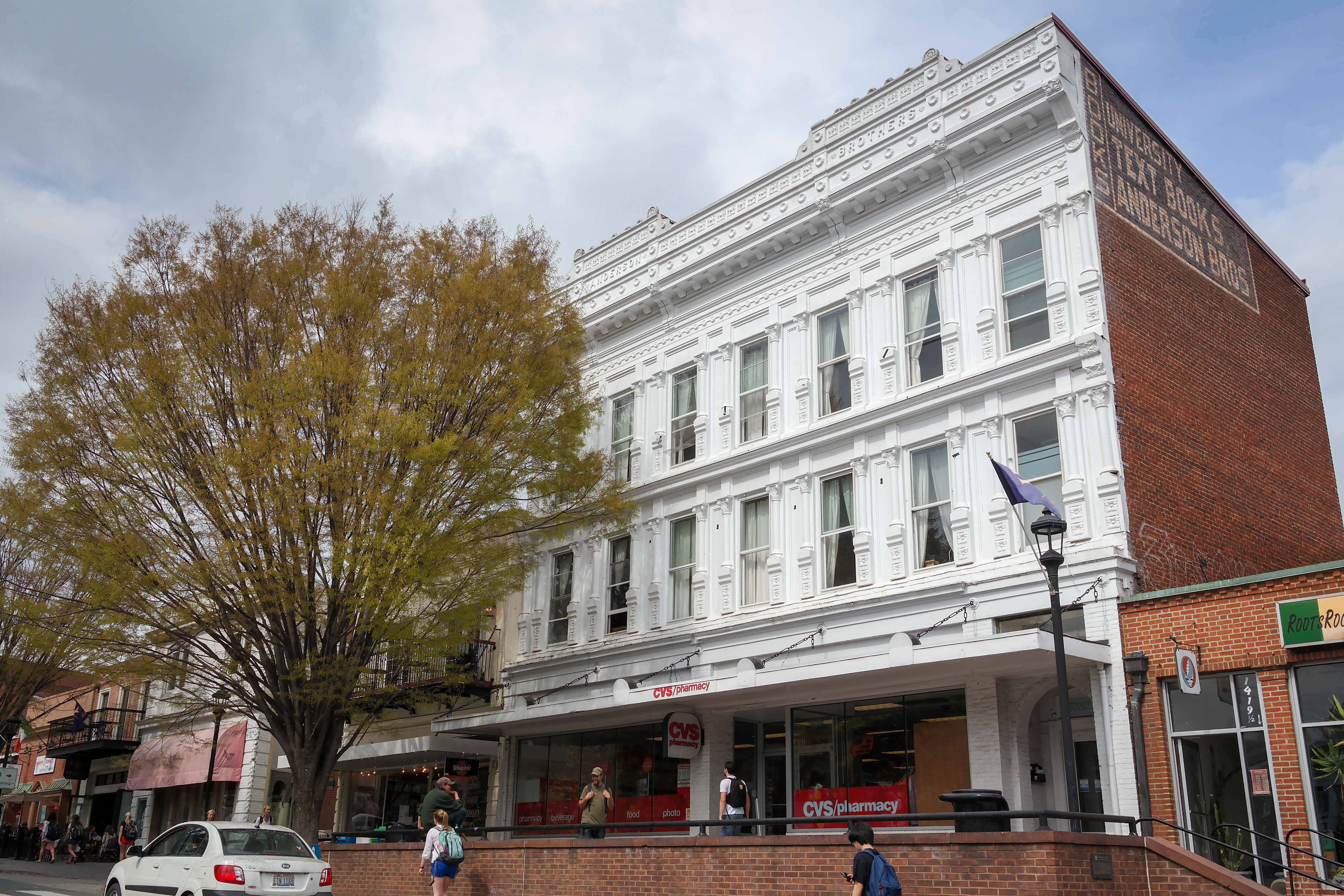 A view of the Anderson Brothers Building at University Corner in Charlottesville, Virginia